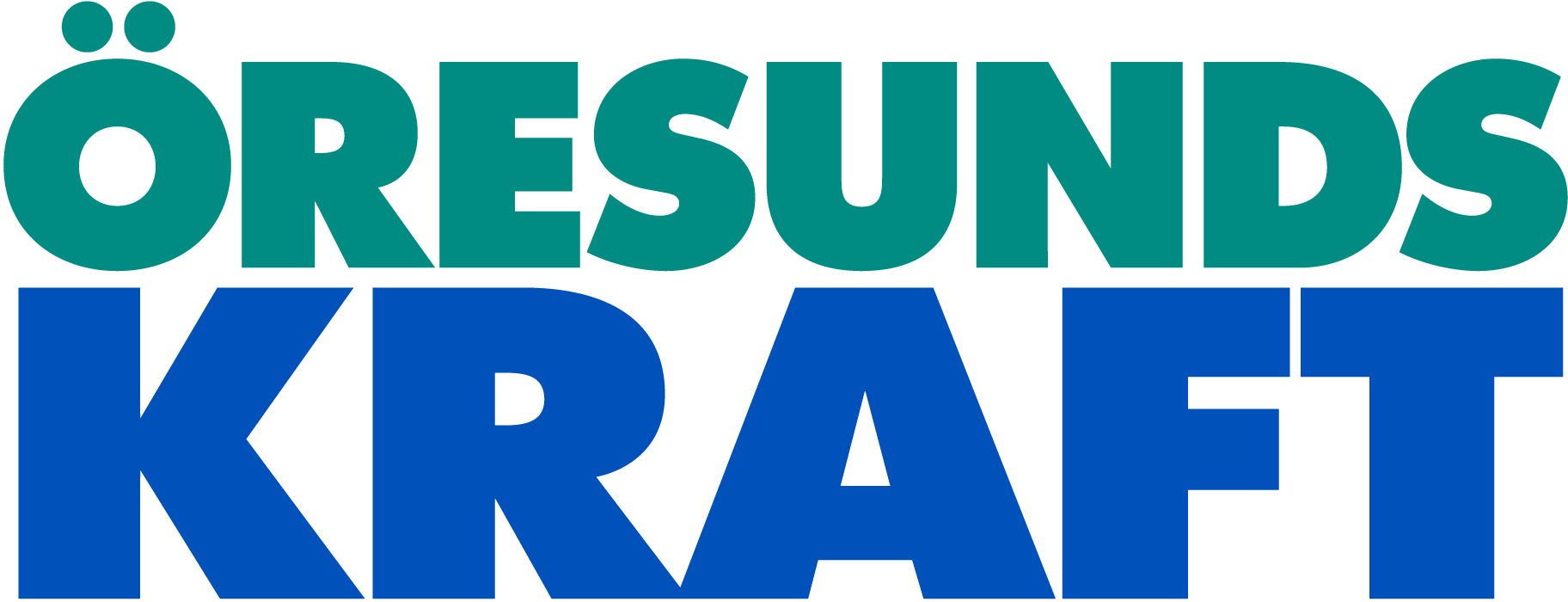 Öresundskraft logo